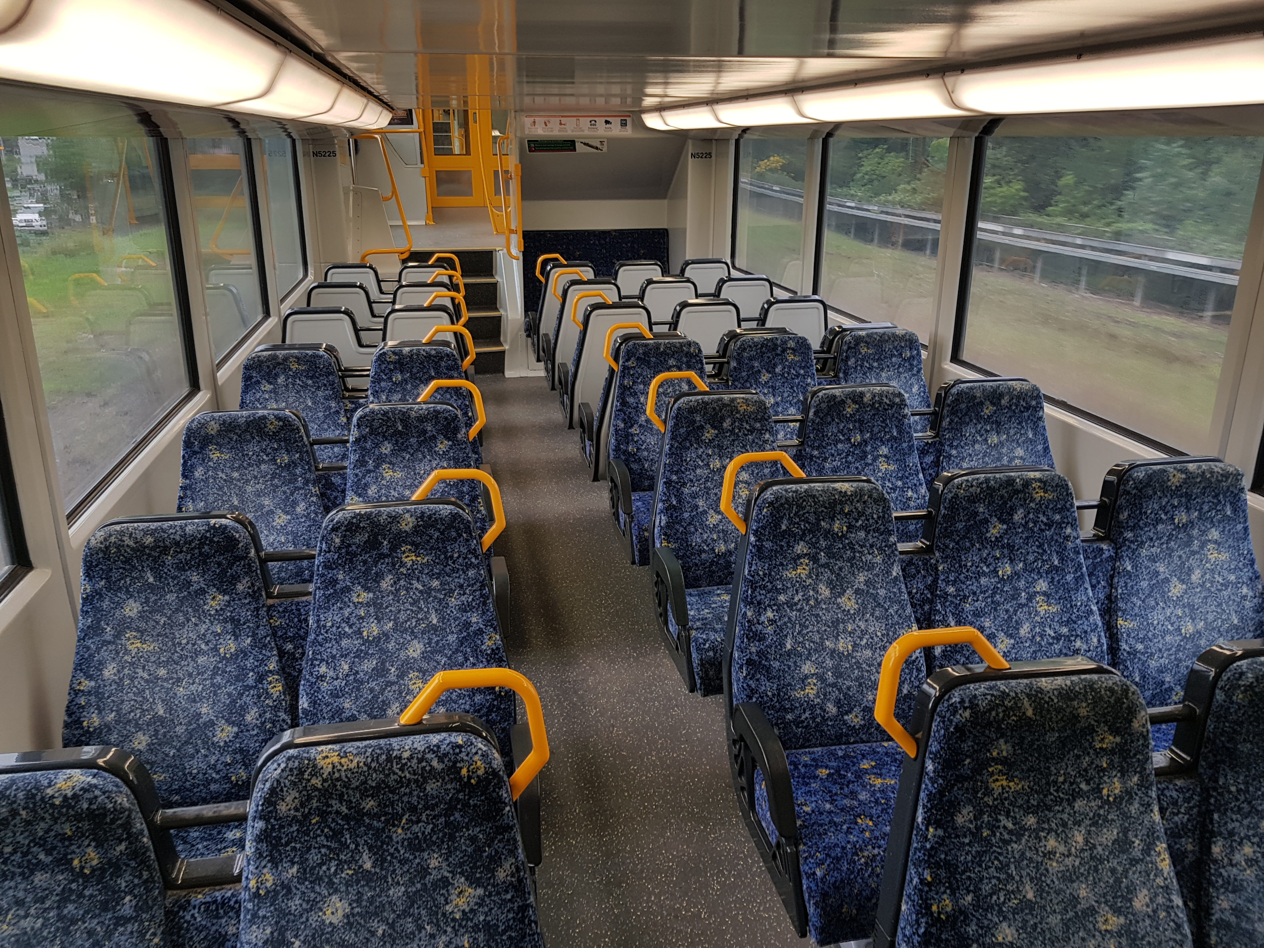 Lower deck of Tangara train carriage